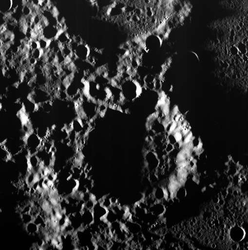 Josetsu crater on Mercury. MESSENGER Wide Angle Camera image. North is at top. Width is approximately 69.9 km at bottom. Emission Angle: 0.2 Incidence Angle: 87.0 Latitude: 83.7 Longitude: 223.7 Phase Angle: 87.1